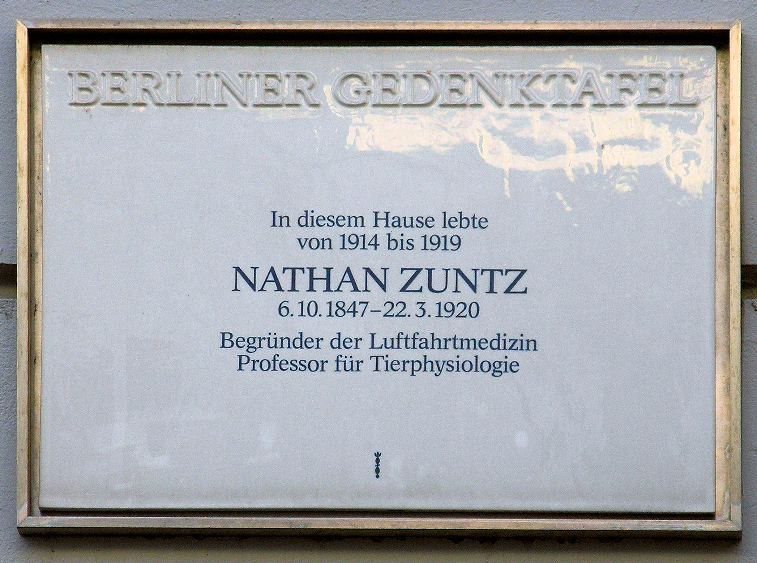 Berlin memorial plaque, Nathan Zuntz, Bleibtreustraße 38-39, Berlin-Charlottenburg, Germany Koordinate:52°30′8″N 13°19′11″E / 52.50222°N 13.31972°E